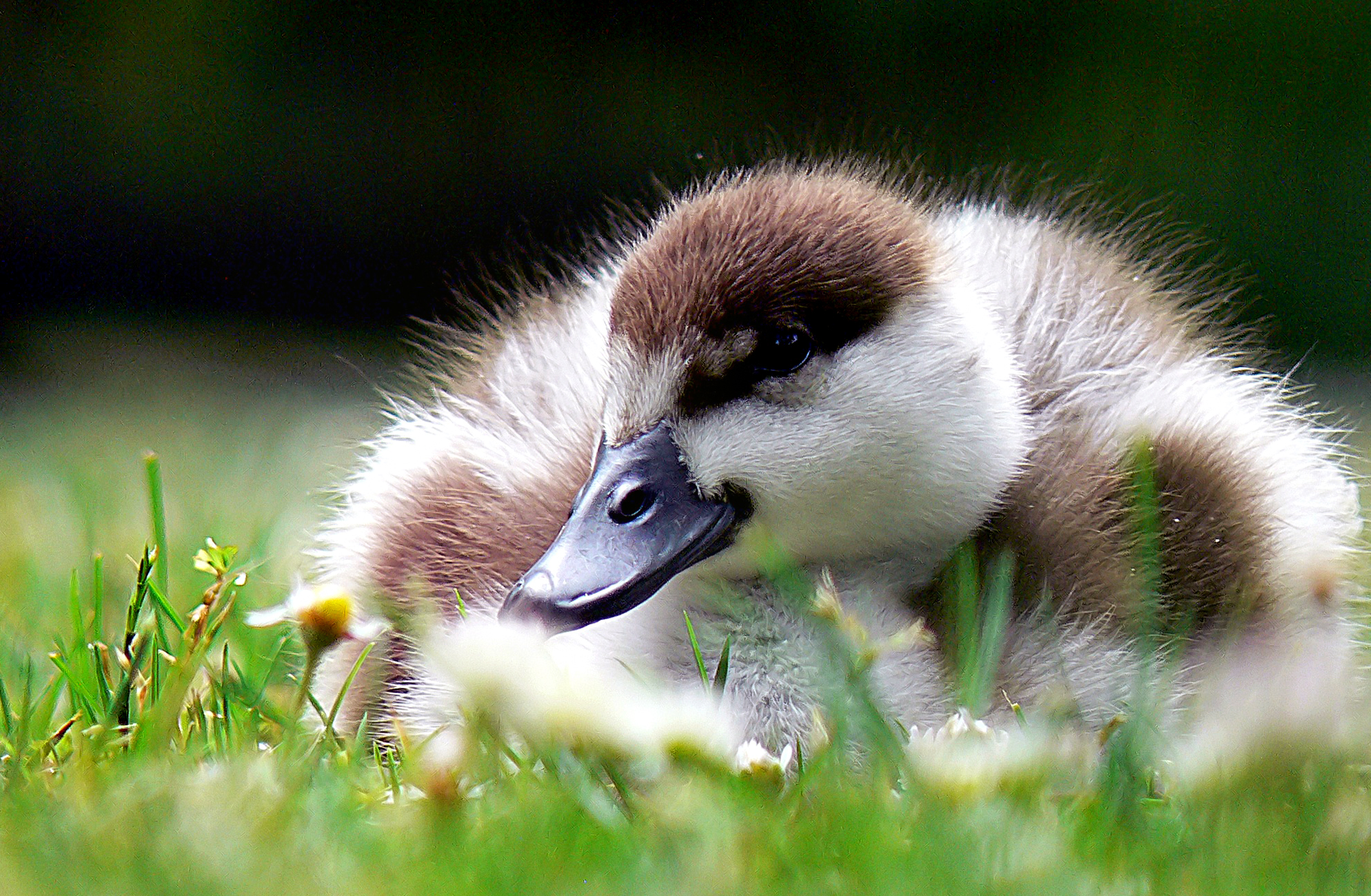 The paradise shelduck is a colourful, conspicuous and noisy waterfowl that could be mistaken for a small goose. It has undergone a remarkable increase in population and distribution since about 1990, including the colonisation of sports fields and other open grassed areas within urban environments. This expansion has occurred in the face of being a gamebird and hunted annually.